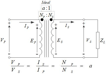 Transformer ideal transformer